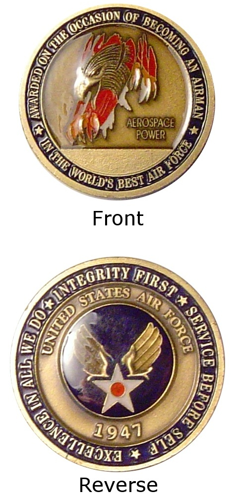 Airman's coin received December 2001. Coin is owned by Brett Burton. Logos and design are property of the United States Air Force.